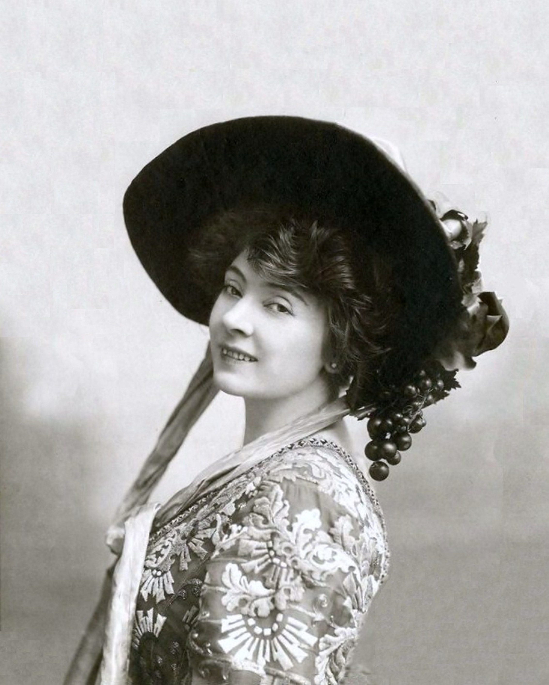 Amélie Diéterle by photographer Auguste Bert. Amélie Diéterle is a French actress born in Strasbourg on 20 February 1871 and died in Cannes on 20 January 1941. She was legitimated in Paris in 1892 by Captain Louis Laurent, Knight of the Legion of Honor. Amélie Diéterle married in Vallauris on 16 June 1930 with André Simon (1877-1965). Amélie Diéterle plays mainly at the Théâtre des Variétés in Paris during the Belle Époque.